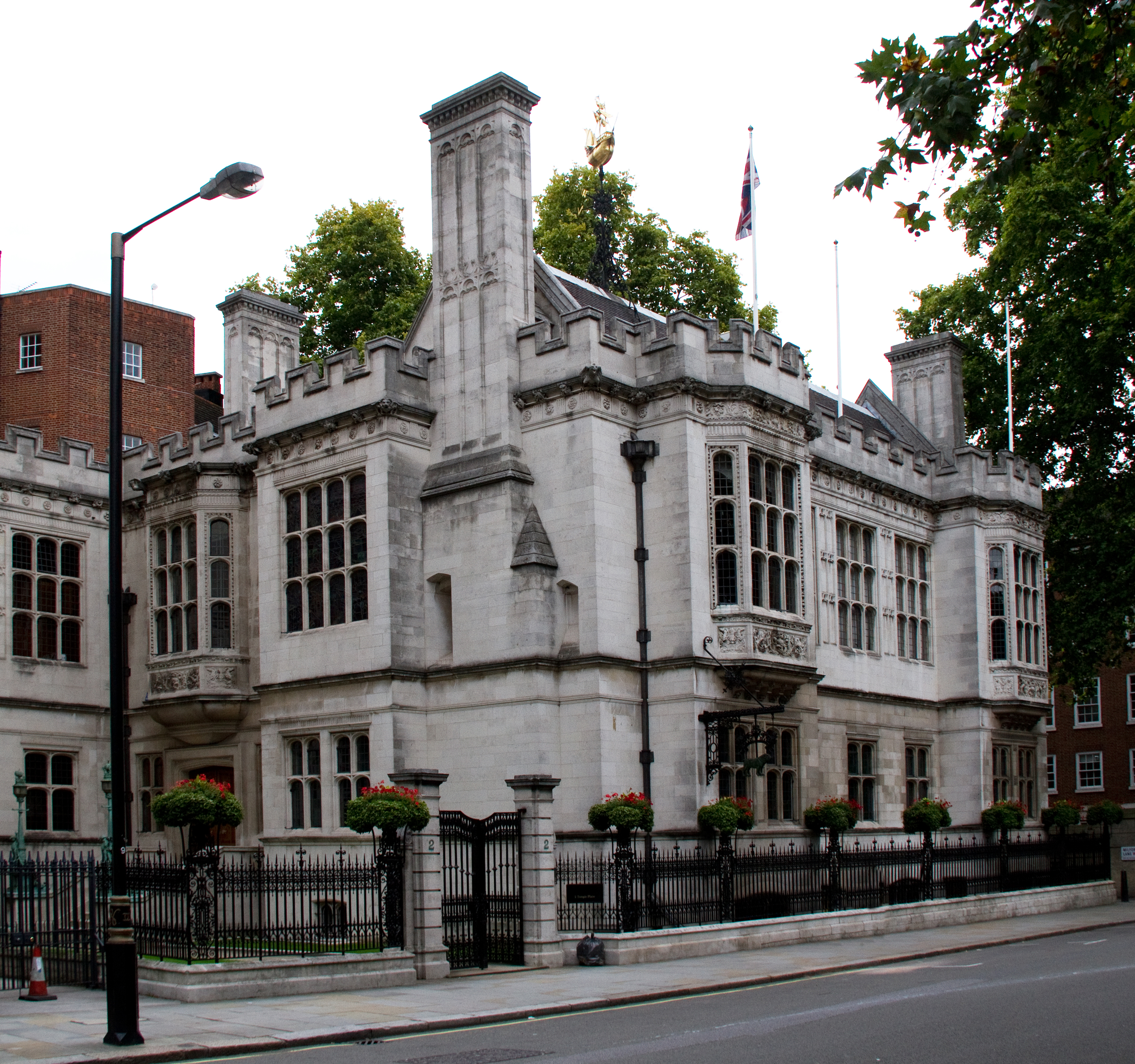 Former Astor Estate Office 2